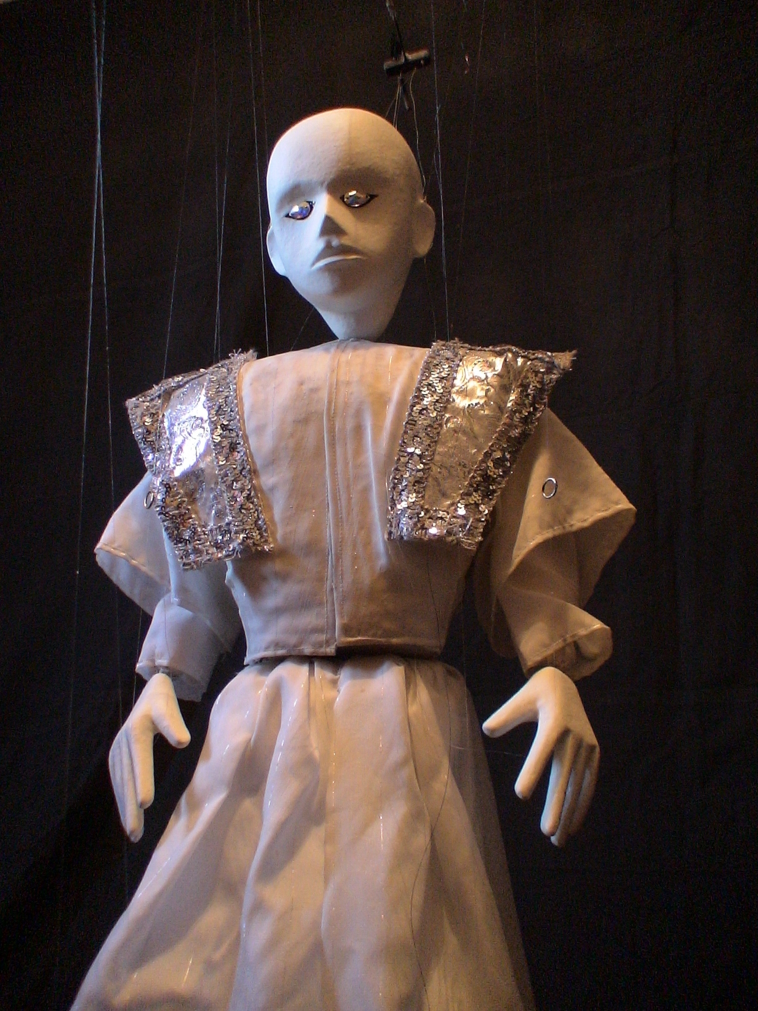 SECOND BIRTH, marionette, Nikolai Zykov Theatre, Russia. Nikolai Zykov - Soviet and Russian actor, producer, artist, designer, puppet-maker, master puppeteer, author of over 20 puppet performances. Nikolai Zykov has created and has made over 80 puppet vignettes with participation of marionettes, hand, rod, giant, radio-controlled and experimental puppets. Nikolai Zykov has performed in 35 countries around the world.